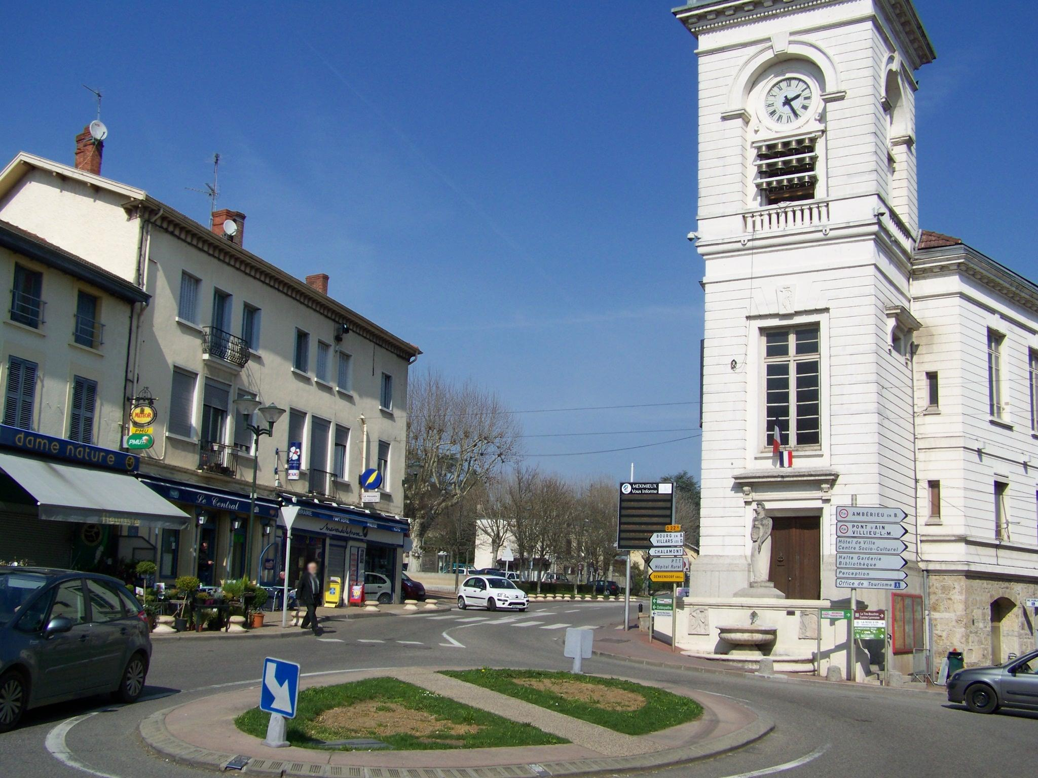 Picture of Meximieux city center and its city office (right) in department of Ain, France.